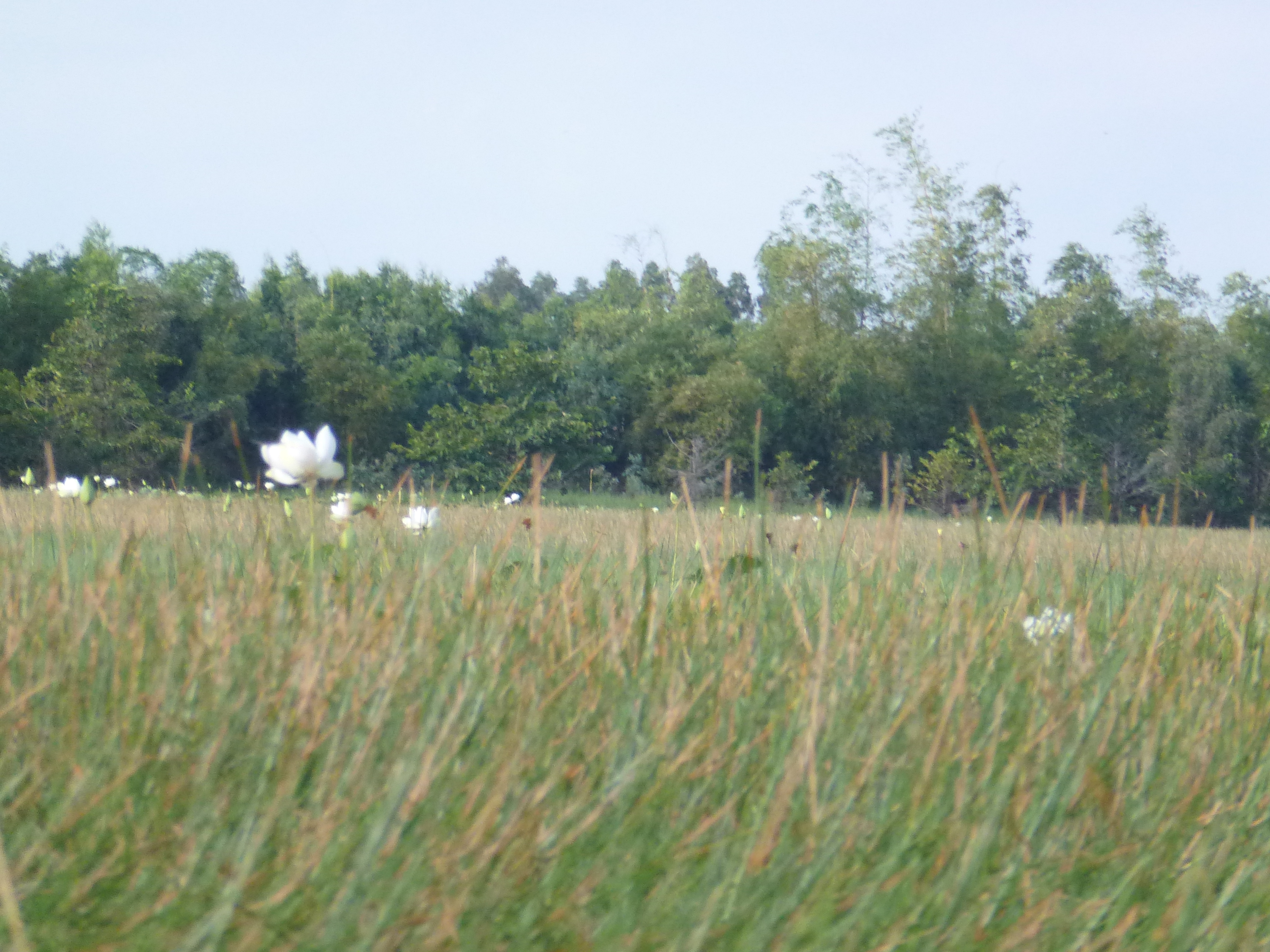 White lotus (Nelumbo lutea) in Tram Chim National Park, Dong Thap Province, Vietnam